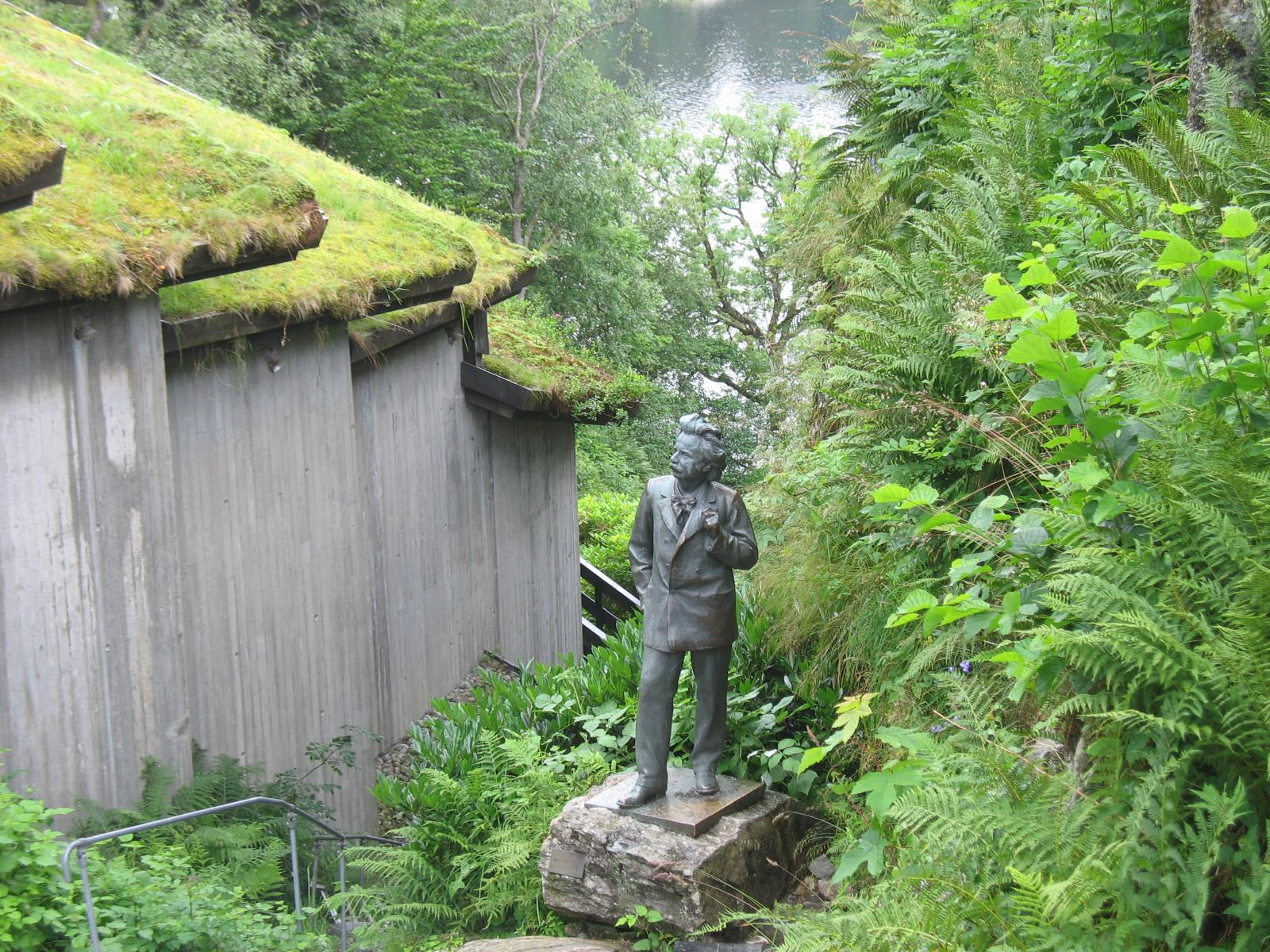 The statue of Edvard Grieg, Norway